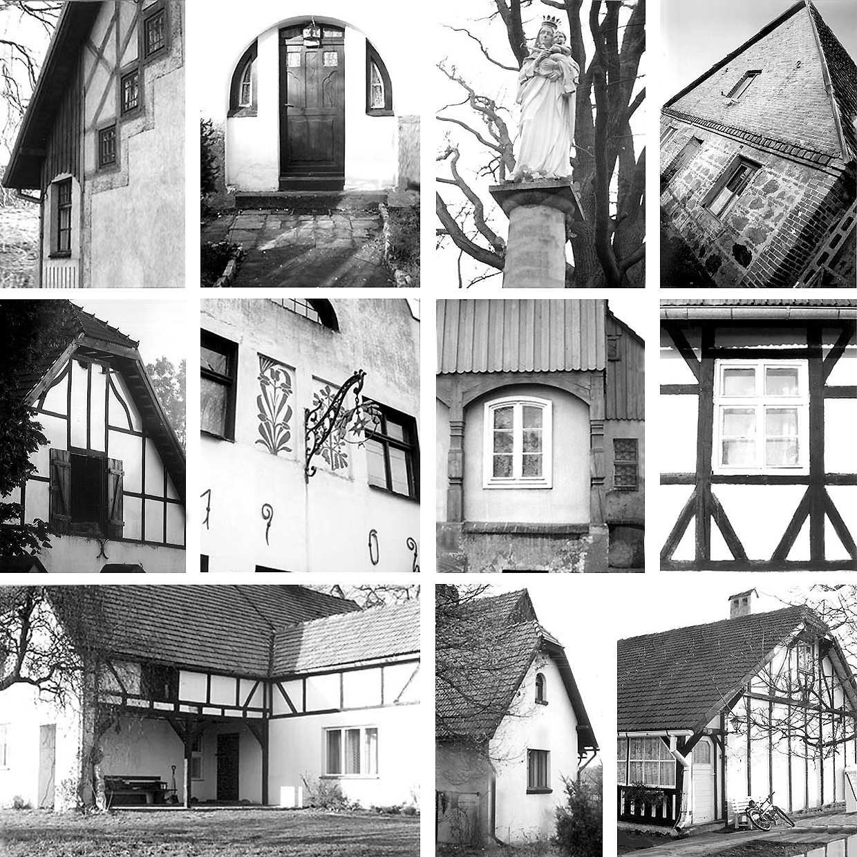 architectural details